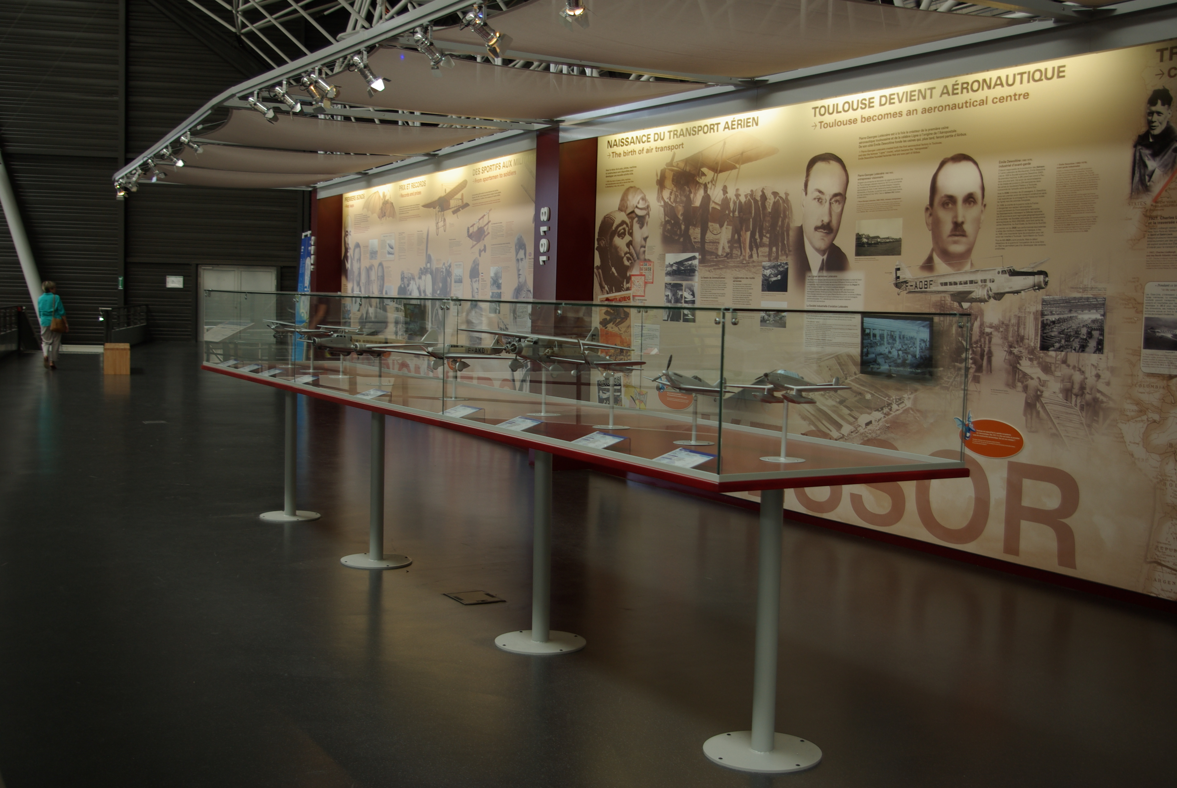 View of the balcony ofAeroscopia, models of Dewoitine aircraft are displayed in front of the frescoof the aviation's history.